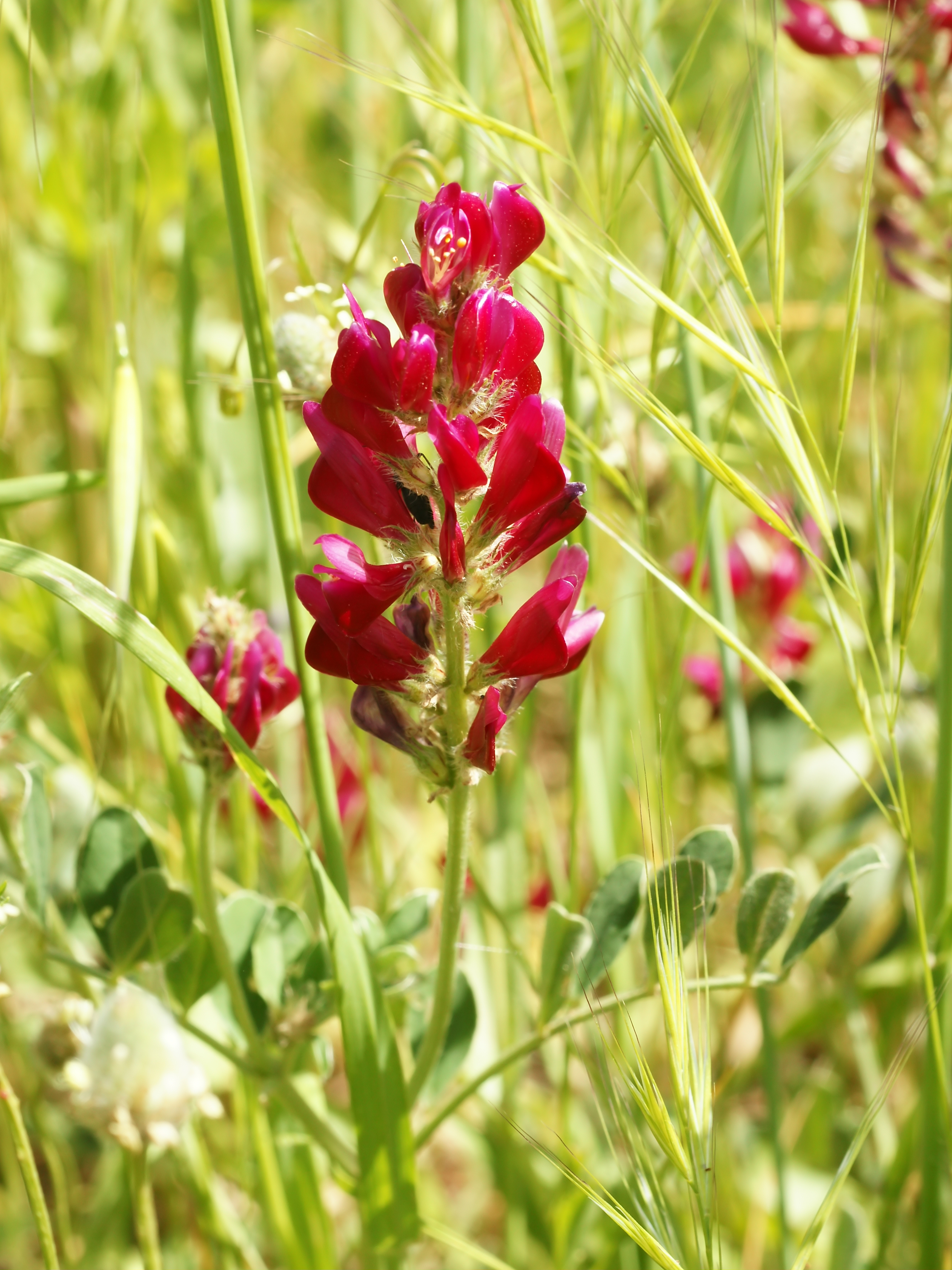 French-honeysuckle. Close to Santadi Basso, Sardinia, Italy